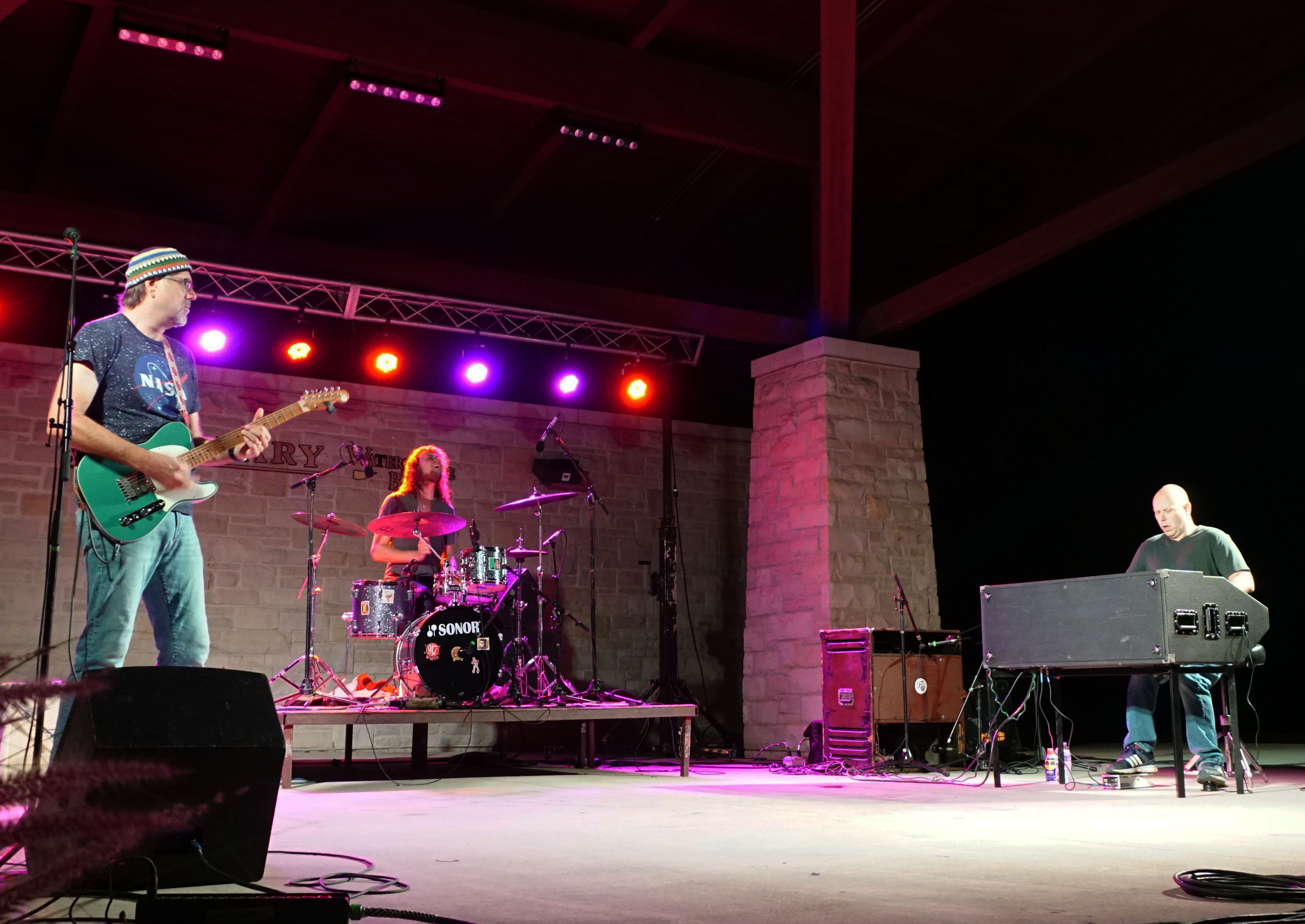 Kock Marshall Trio playing live September 8, 2018 in Wisconsin